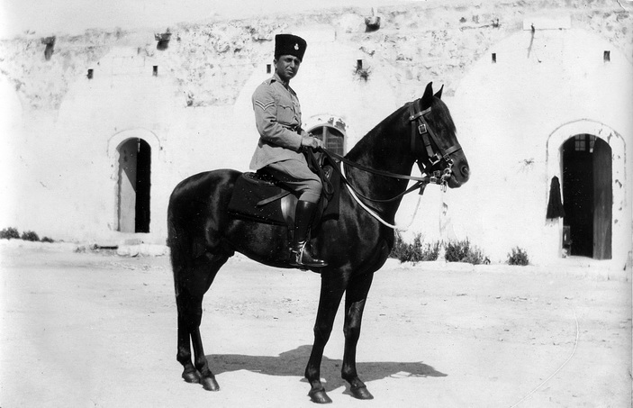 Yitzhak Shvili in the Qishla courtyard in Jerusalem